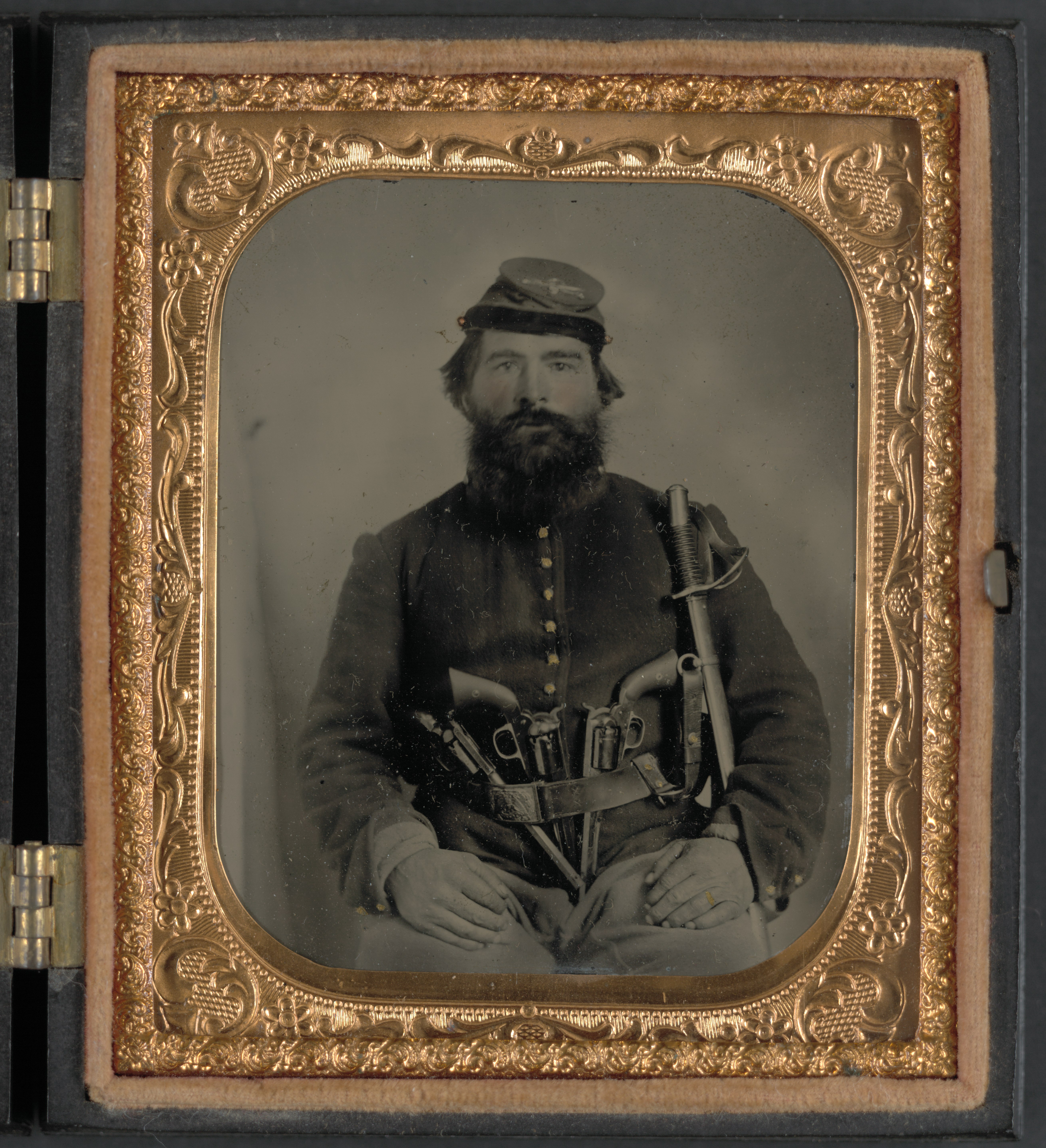 Title: A. J. Blue, cavalry soldier in Union shell jacket and bummer cap with three Remington revolvers in his belt, holding a sword Abstract/medium: 1 photograph : sixth-plate tintype, hand-colored ; 9.6 x 8.3 cm (case)